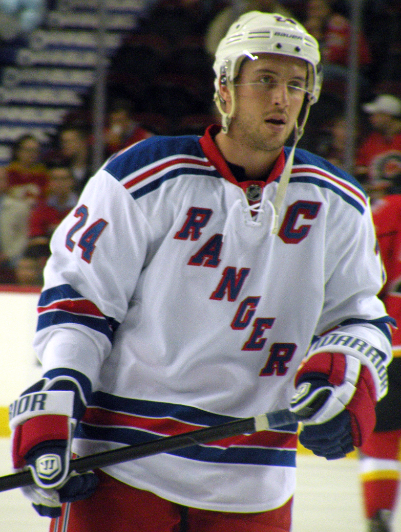 New York Rangers forward Ryan Callahan prior to a National Hockey League game against the Calgary Flames, in Calgary.